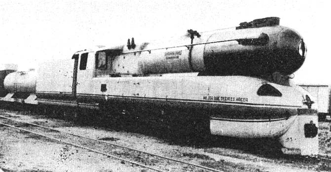 The so called 'Argentina' steam locomotive from Argentina designed by Livio Dante Porta. Original caption: Prototype metre-gauge 4-cylinder compound 4-8-0 locomotive.